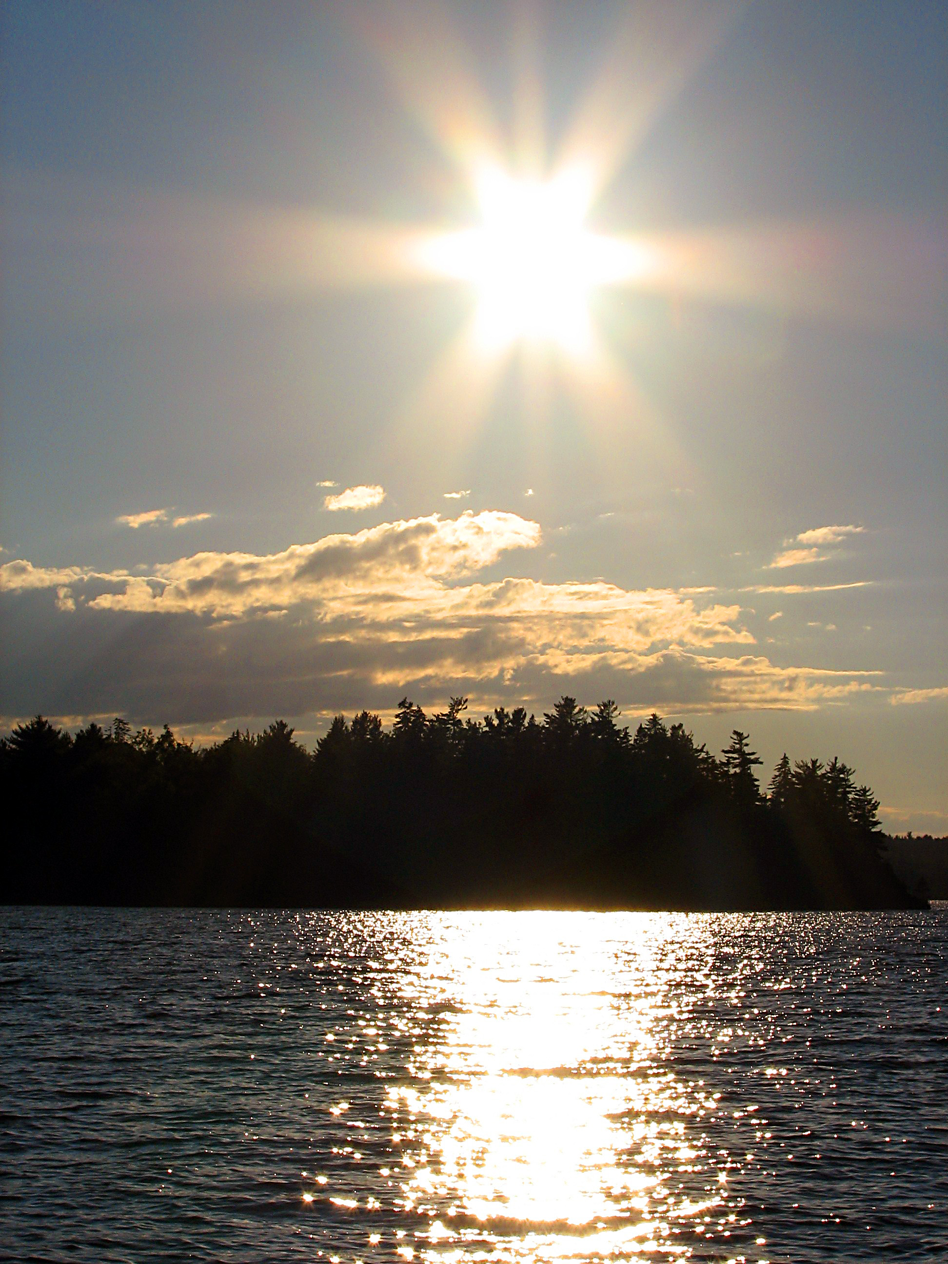 Chamcook Lake, New Brunswick, Canada